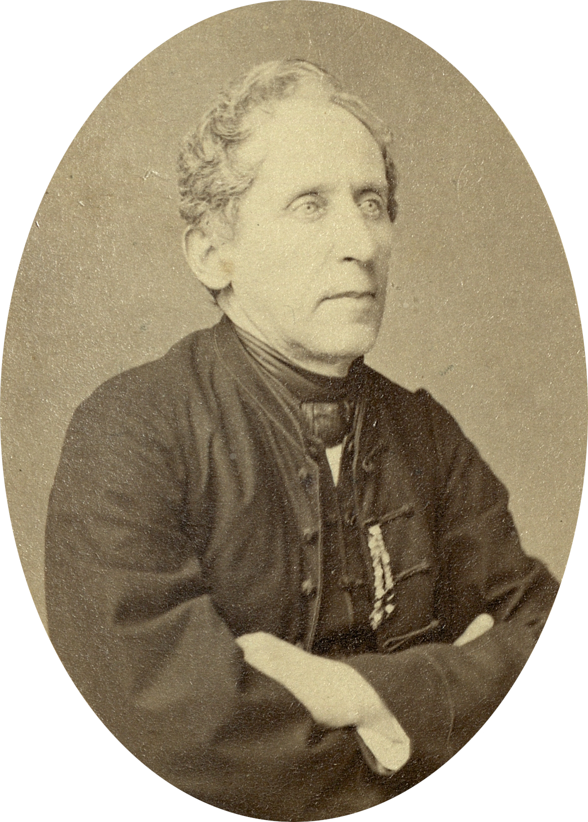 Janez BLeiweis Trsteniški (1808-1881), slovene politician.